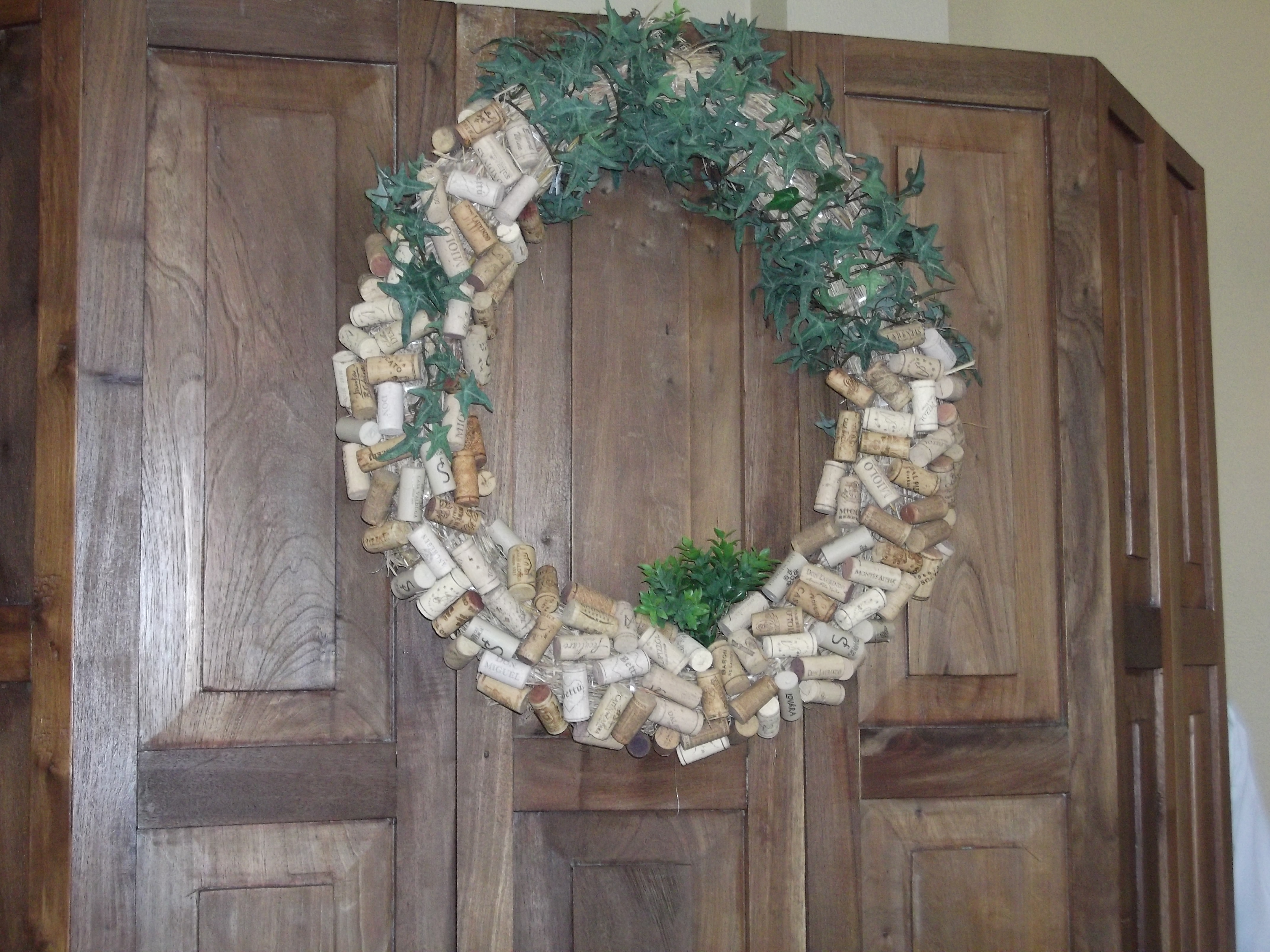 Christmas wreaths with corks.